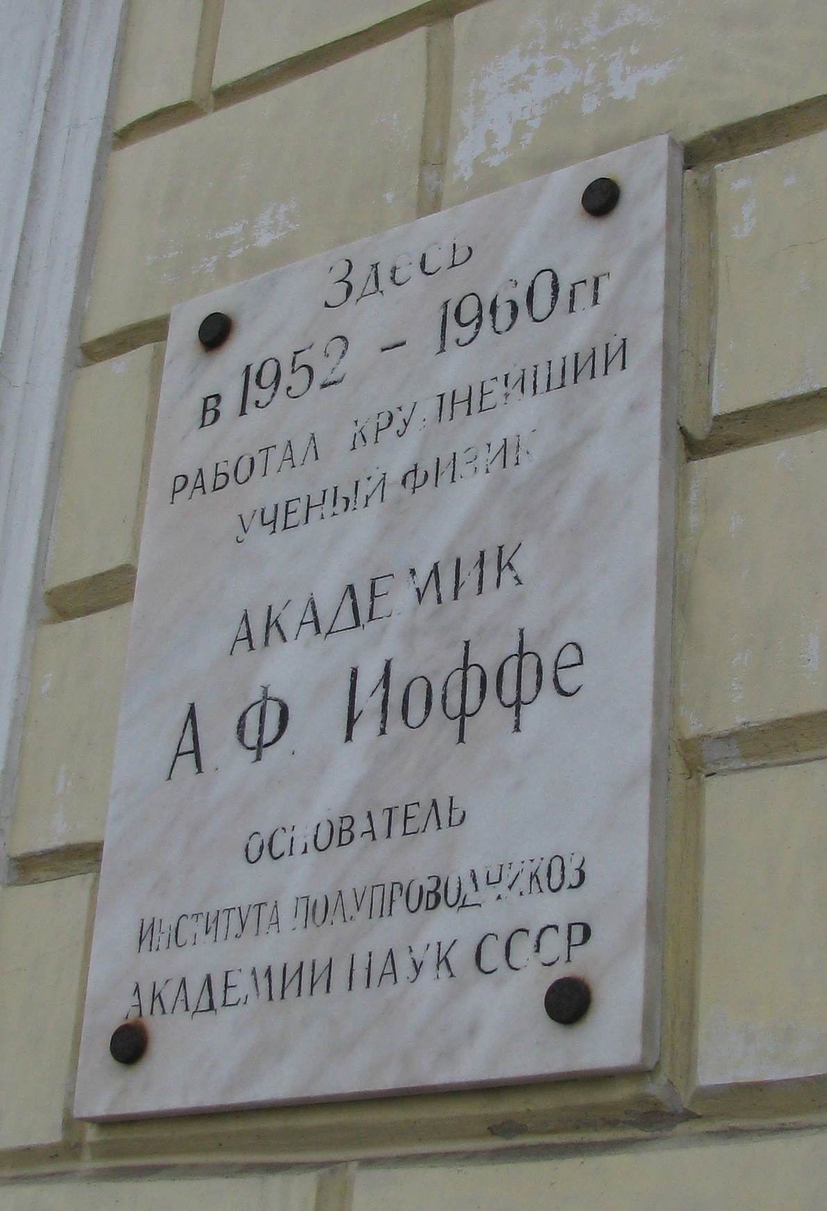 Plaque in tribute to Ivan Voinov, at Institute of Applied Astronomy RAS in St. Petersburg, Russia